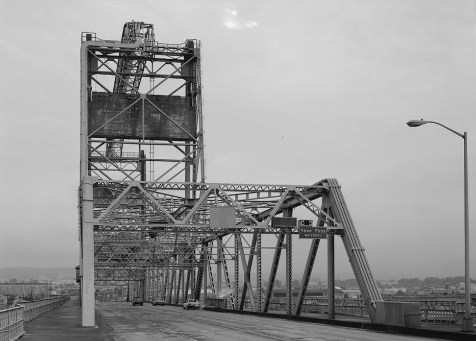 B&W image of the bridge over the Thea Foss Waterway,Tacoma, looking east, made after 1968?? Original filename: 370523pv.jpg